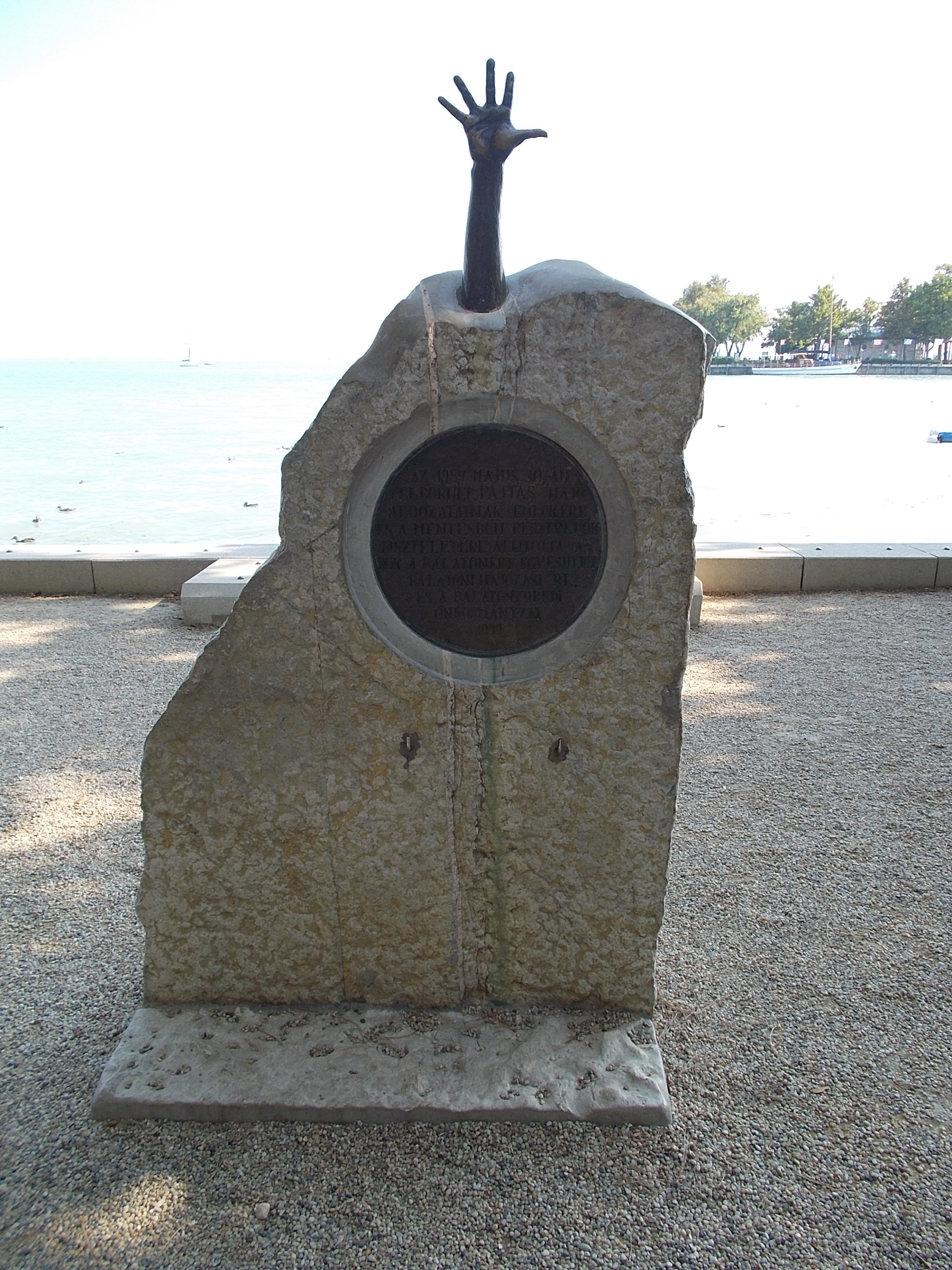 Memorial to the victims of Pajtás (ship) accident. Modern, Bronze and Limestone sculpture. - Tagore Promenade, Balatonfüred, Veszprém County, Hungary